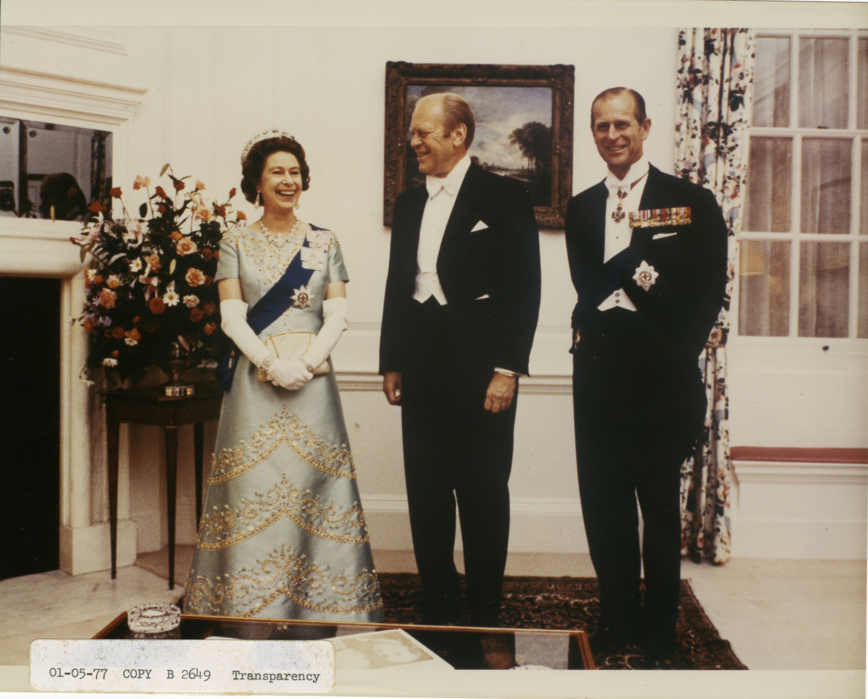 The photo contact sheet, identified as B2649 by the White House Photographic Office (WHPO), is housed at the Gerald R. Ford Presidential Library, a branch of the National Archives and Records Administration (NARA). This file is a 200 dpi photo contact sheet having images from roll of film B2649 of the August 9, 1974 - January 20, 1977 Gerald R. Ford White House Photographic Office Series A0001-A9999 and B0001-B2886 photographs. The date on the photo contact sheet is the date the roll of film was processed, not necessarily the date the photographs were taken. See table below for additional details.